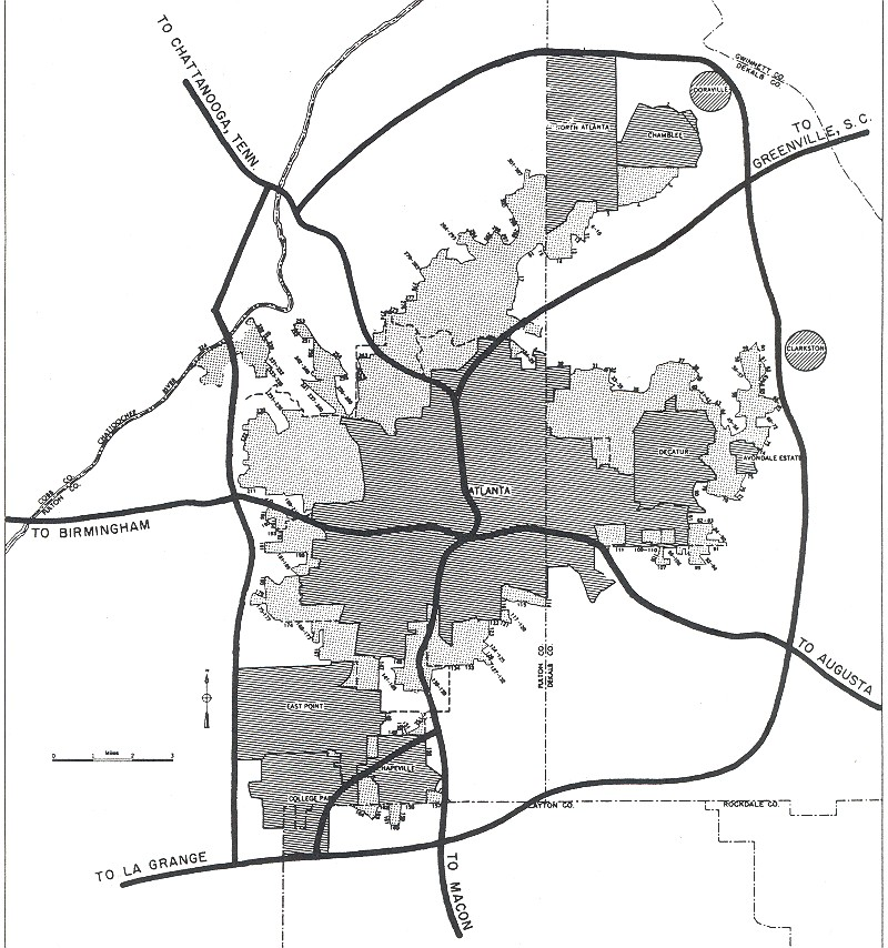 Interstates in today's terms I-20 I-75 I-85 I-285